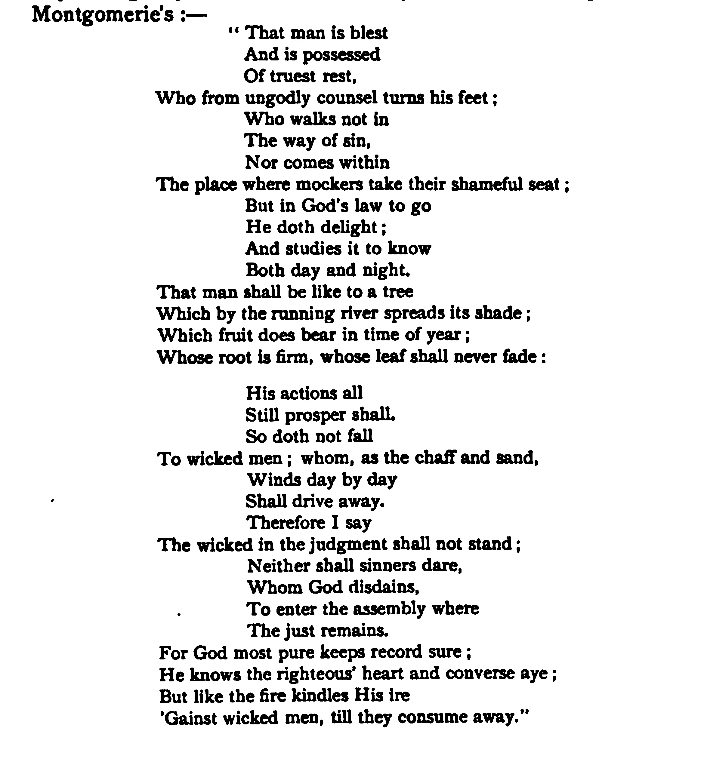 Psalm 1 by Alexander Montgomerie public domain